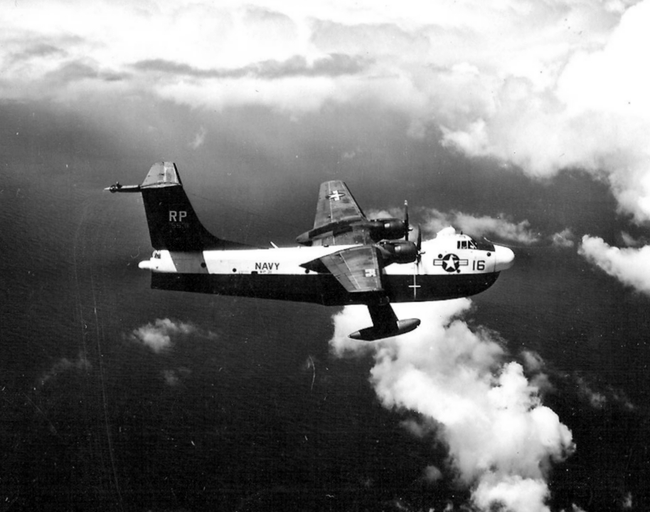 A U.S. Navy Martin P5M-2S Marlin (BuNo 135531) from Patrol Squadron VP-31 Genies in flight, June 1962.